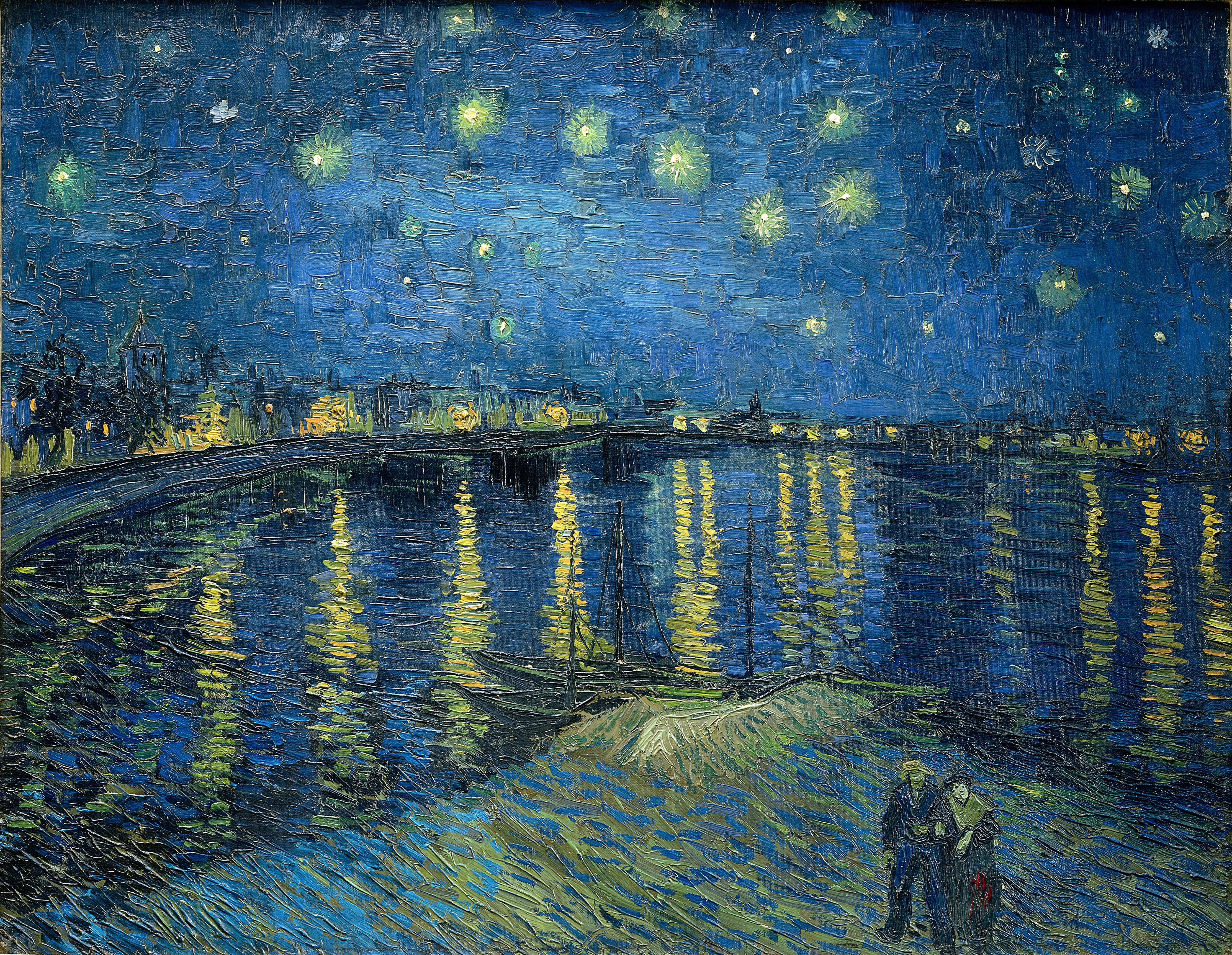 depicts the Rhône River at night